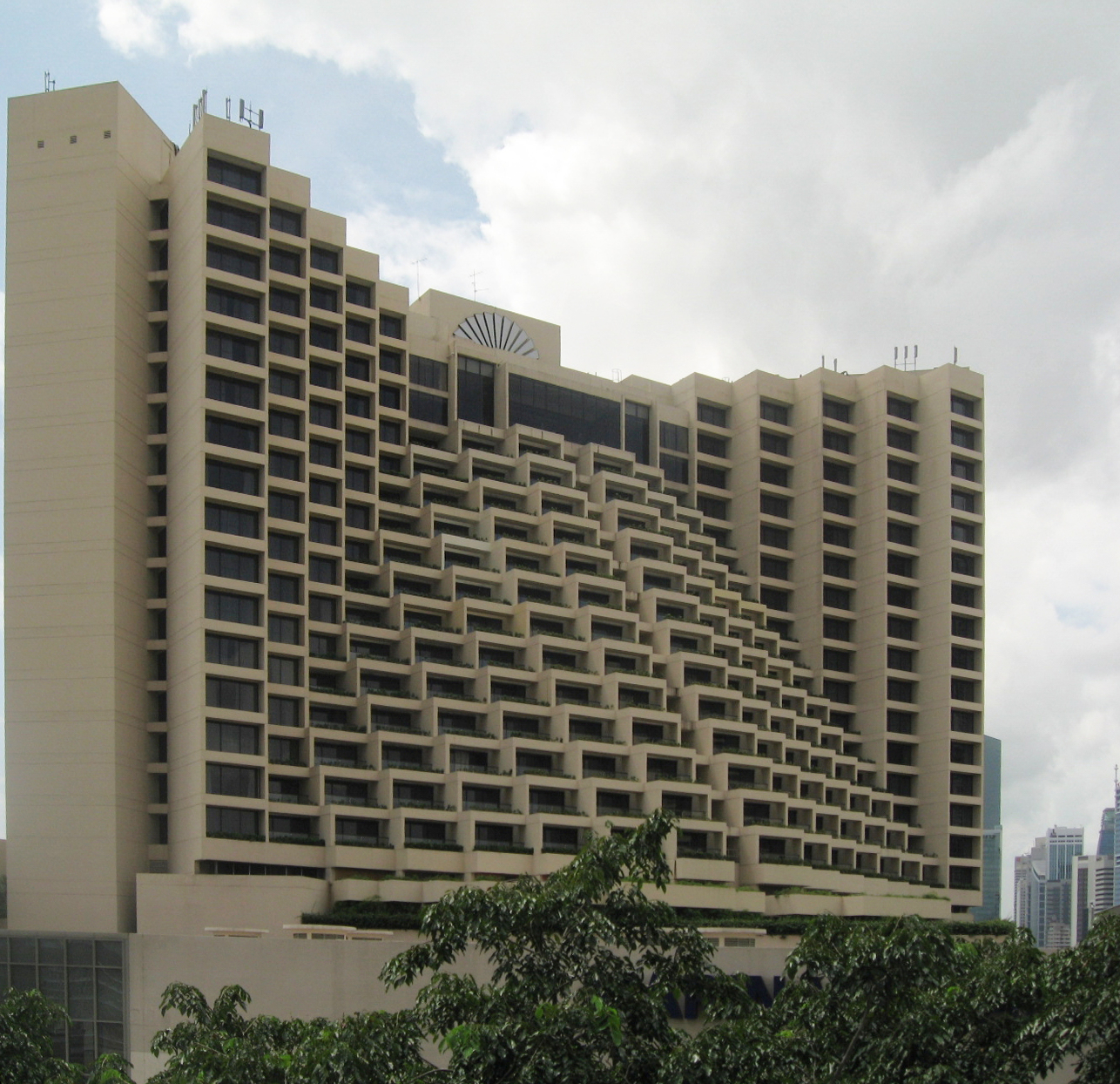 The Oriental Singapore.